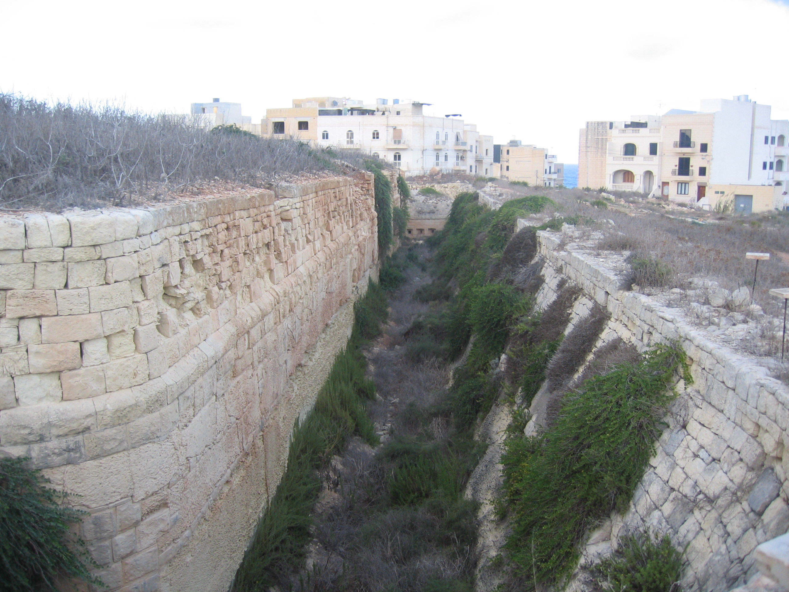 Della Grazie Battery. Xlendi, Malta. Copyright H.J.Moyes - User:Shoka Right hand ditch, looking towards the front of the battery